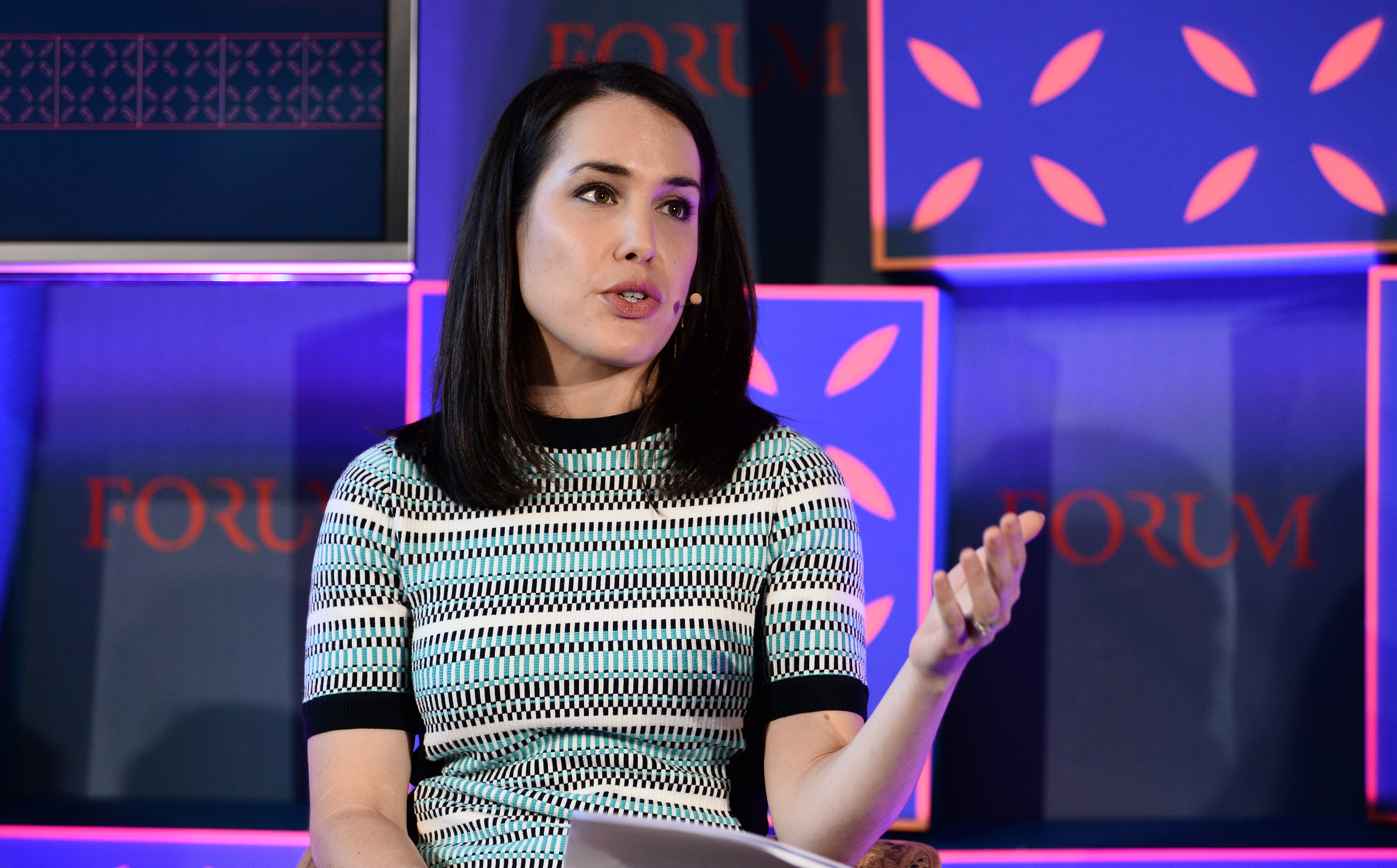 8 November 2017; Hadas Gold, Reporter, European Politics, Media and Business, CNN, on the Forum North Stage during day two of Web Summit 2017 at Altice Arena in Lisbon. Photo by Diarmuid Greene/Web Summit via Sportsfile